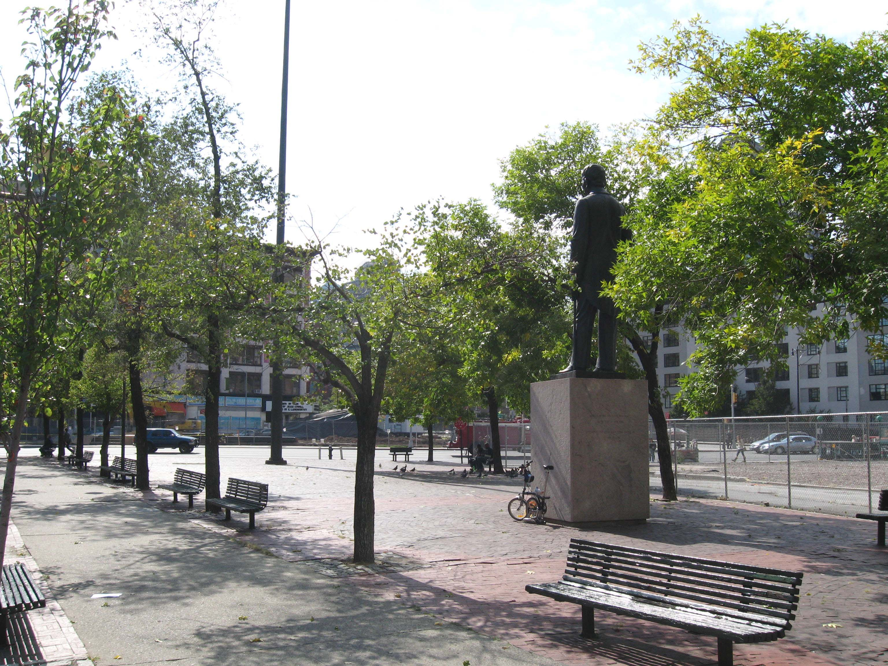 Looking southwest at Juan Pablo Duarte Square and Canal Street on a hazy midday for WTM Goal #H11. See also Image:Duarte Sq statue jeh.JPG. This photo is of Wikis Take Manhattan goal code H11, Juan Pablo Duarte Square.